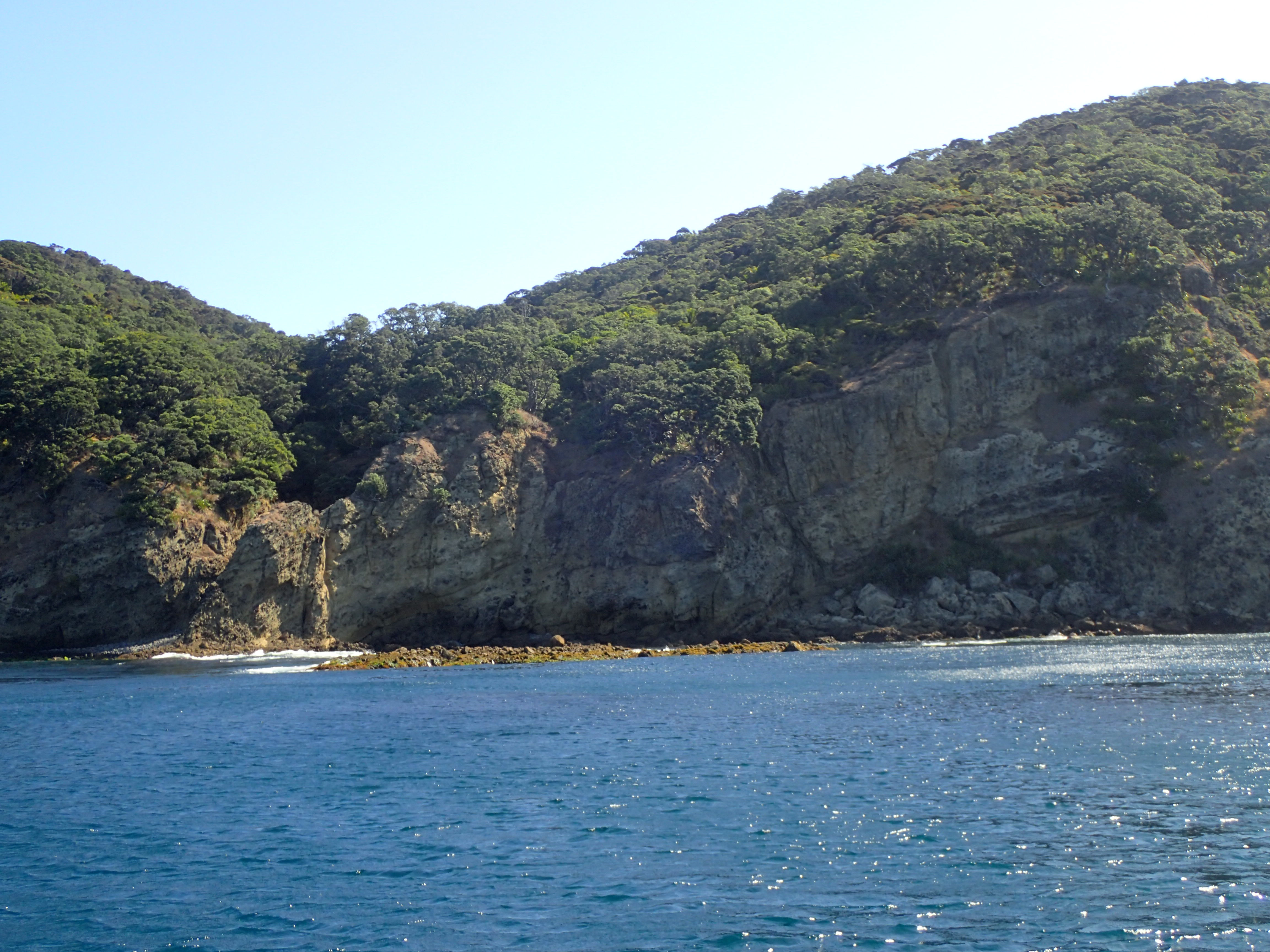 Little Waterfall Bay Great Barrier Island / Aotea New Zealand / Aotearoa in very calm conditions - the site where the Rose-Noëlle came ashore. The yacht struck the large flat reef in the foreground, then washed down the right side of it, onto the beach and broke up. The crew then escaped the yacht and climbed along the beach to the waterfall & beach just to the left of the large flat reef and up the river.